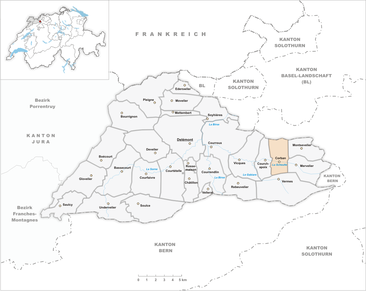 Municipality Corban